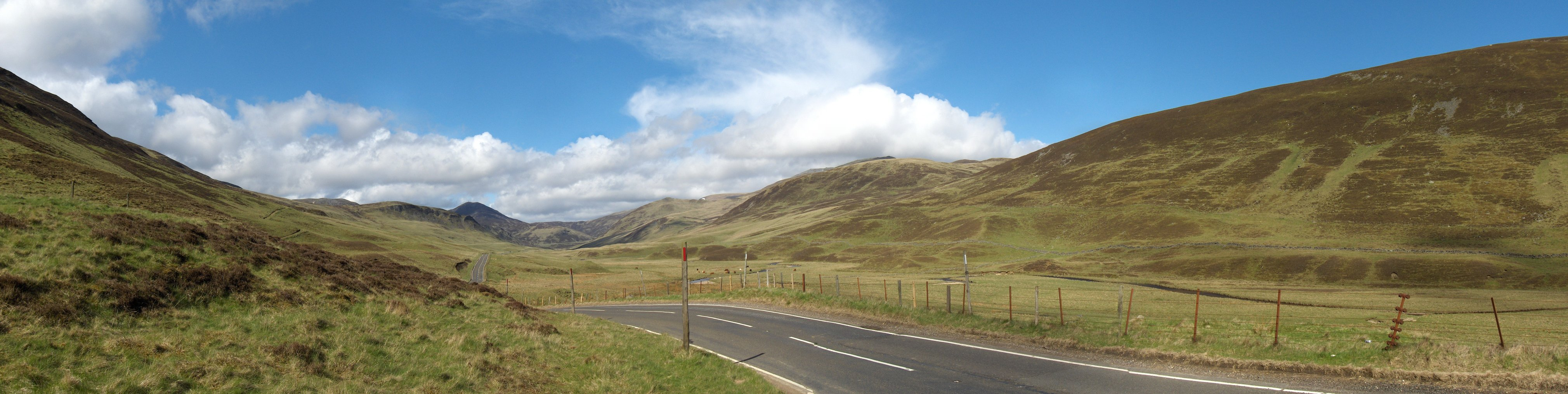 Scottish Highlands